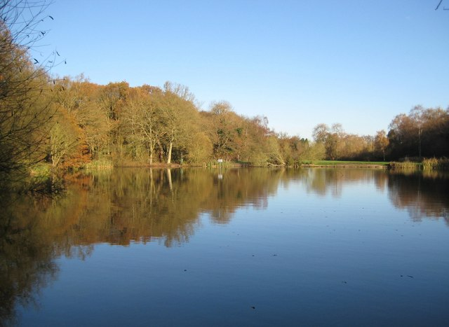 Epsom Common: Stew Pond Once owned by the Abbey of Chertsey as part of their lands on Epsom Common, and probably originally excavated by the monks of the abbey, a stew pond was so-named because it would have been a holding pond where fish were fattened immediately prior to being consumed in a stew. This pond is the only one on the common today where fishing is allowed. The water in the pond comes via a spillway from 1054352.